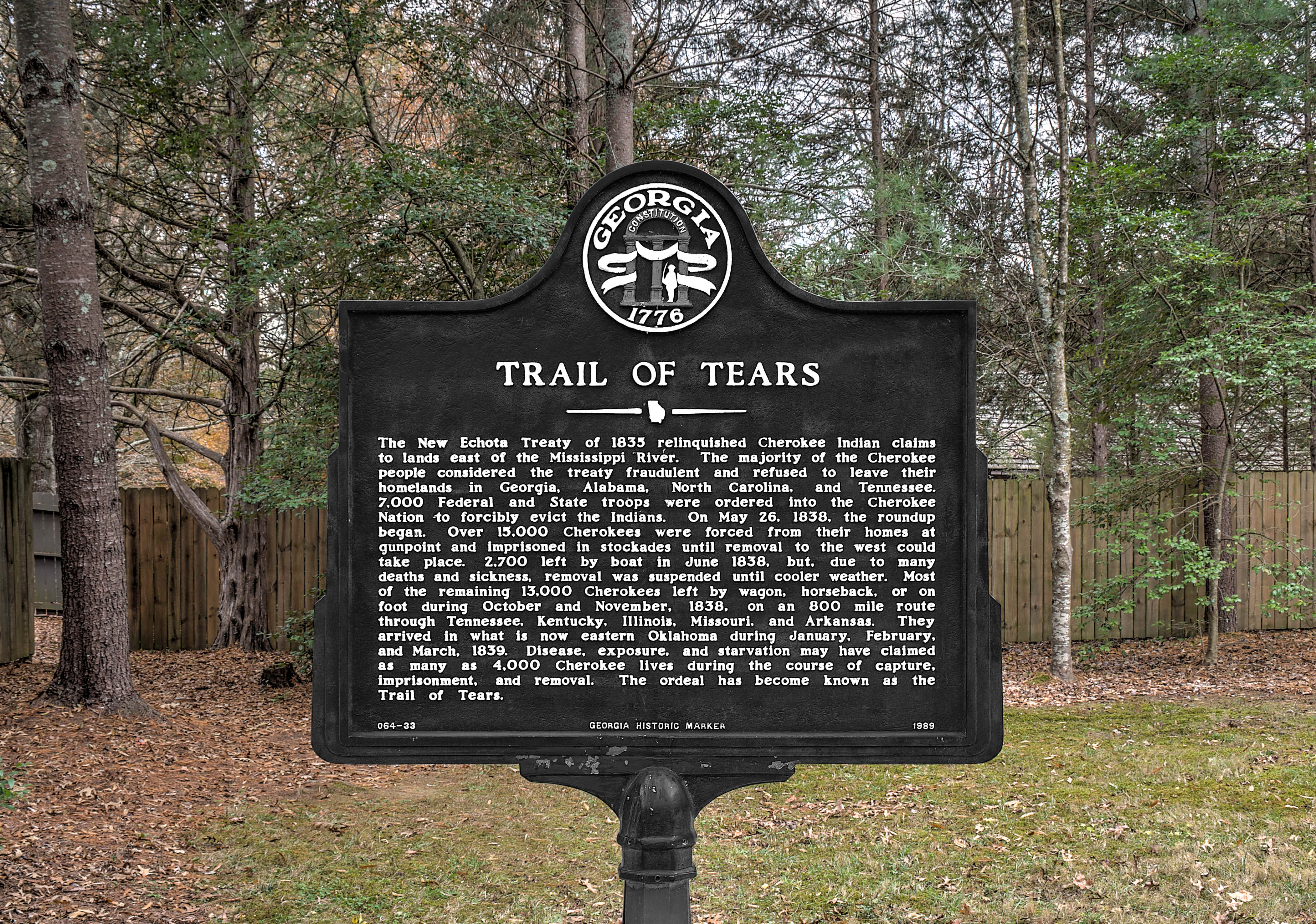 Trail of Tears sign at New Echota Historic Site